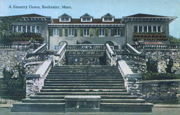 Mayowood Mansion, Rochester, MN; from a c. 1914 postcard. Built in 1910-1911 by Dr. Charles Horace Mayo, it is today a museum owned by the Olmsted County Historical Society. In 1970, the estate was added to the National Register of Historic Places.